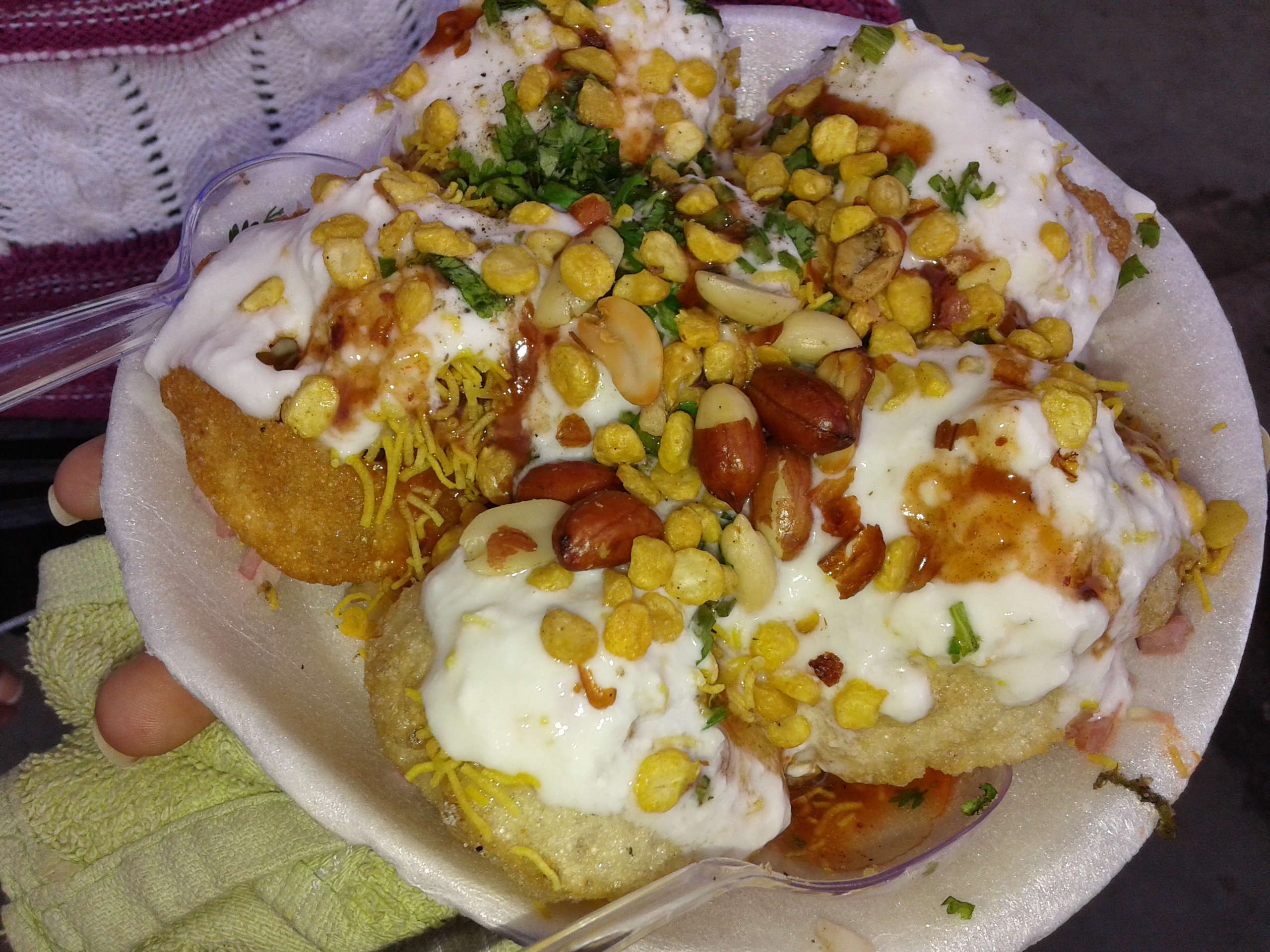 Dahi batata puri, an arrangement of tiny, crisp puris amidst a mélange of potatoes, ragda, and a topping of miscellaneous chutneys and beaten curds